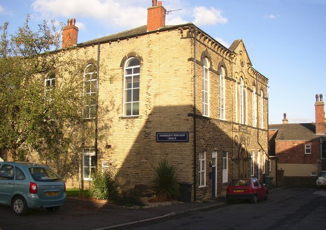 Independent Methodist Chapel, Chapel Street, Cleckheaton, West Yorkshire, England. This is dated 1874.